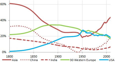 Percentage of world GDP for top 5, based on [1]